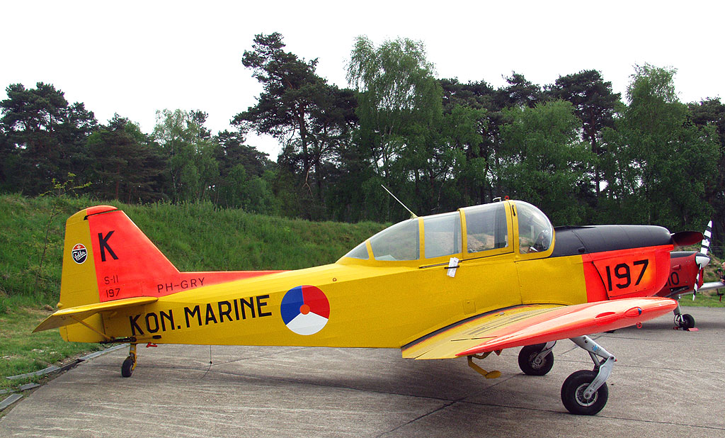 Fokker S11 (PH-GRY) at Airport Niederrhein